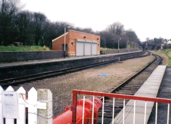 Leicester North railway station from main gate, 2001 by Ronnie Clark